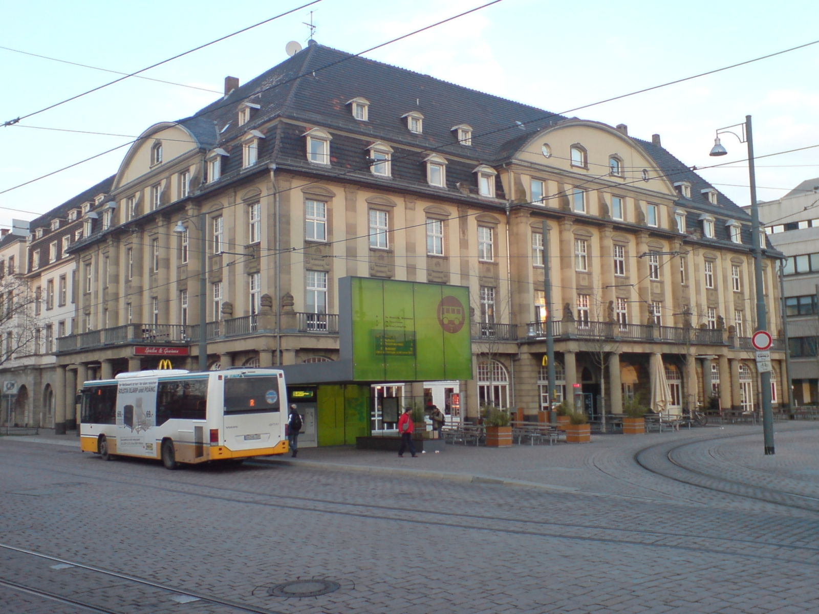 A stately old building outside of the Darmstadt Hauptbahnhof. This is the former Bahnhofshotel. Seen in Darmstadt, Germany, looking north.